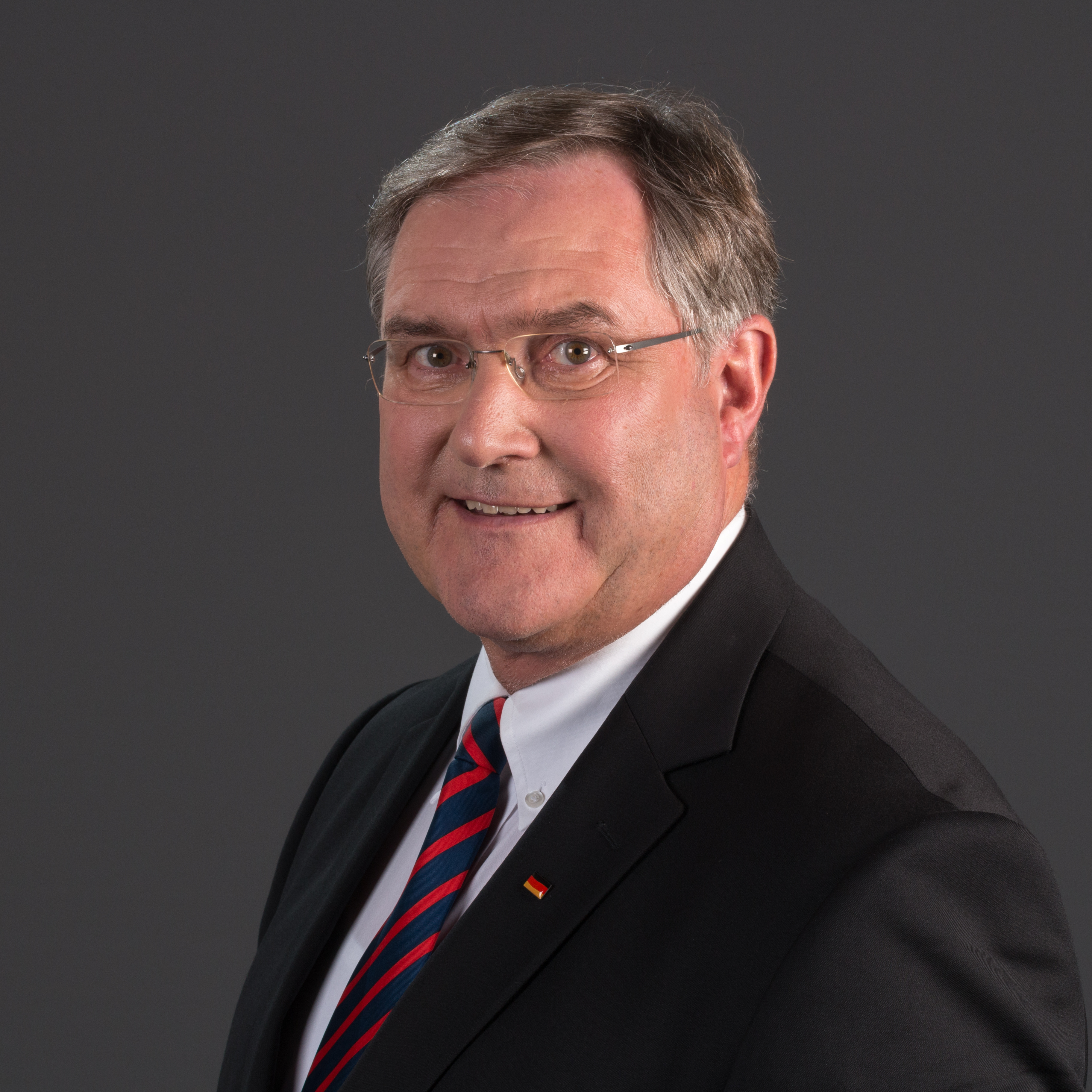 Franz Josef Jung MdB, CDU/CSU